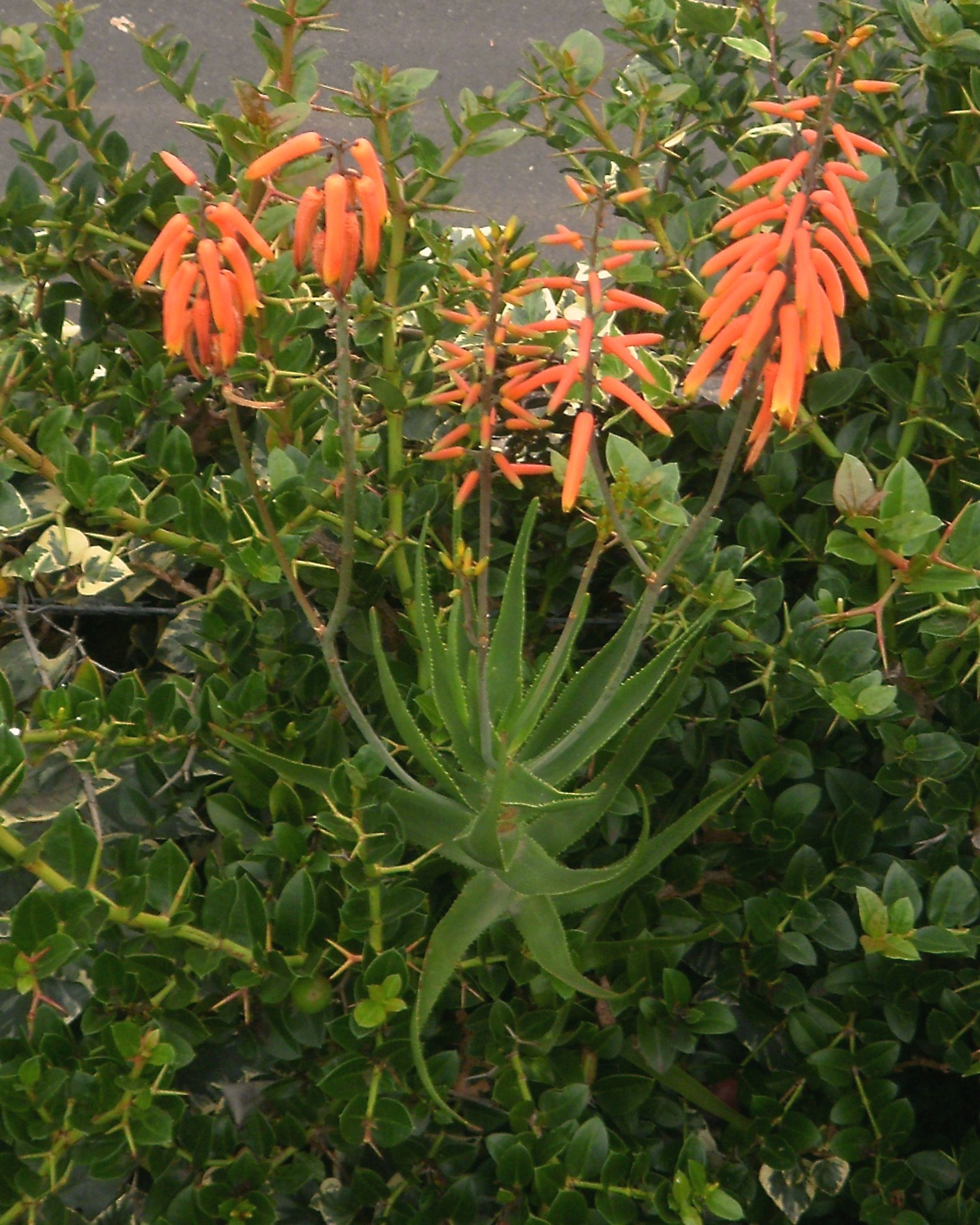 Aloe gracilis of Port Elizabeth South Africa. Characteristic red-scarlet flowers on multi-stemmed racemes.